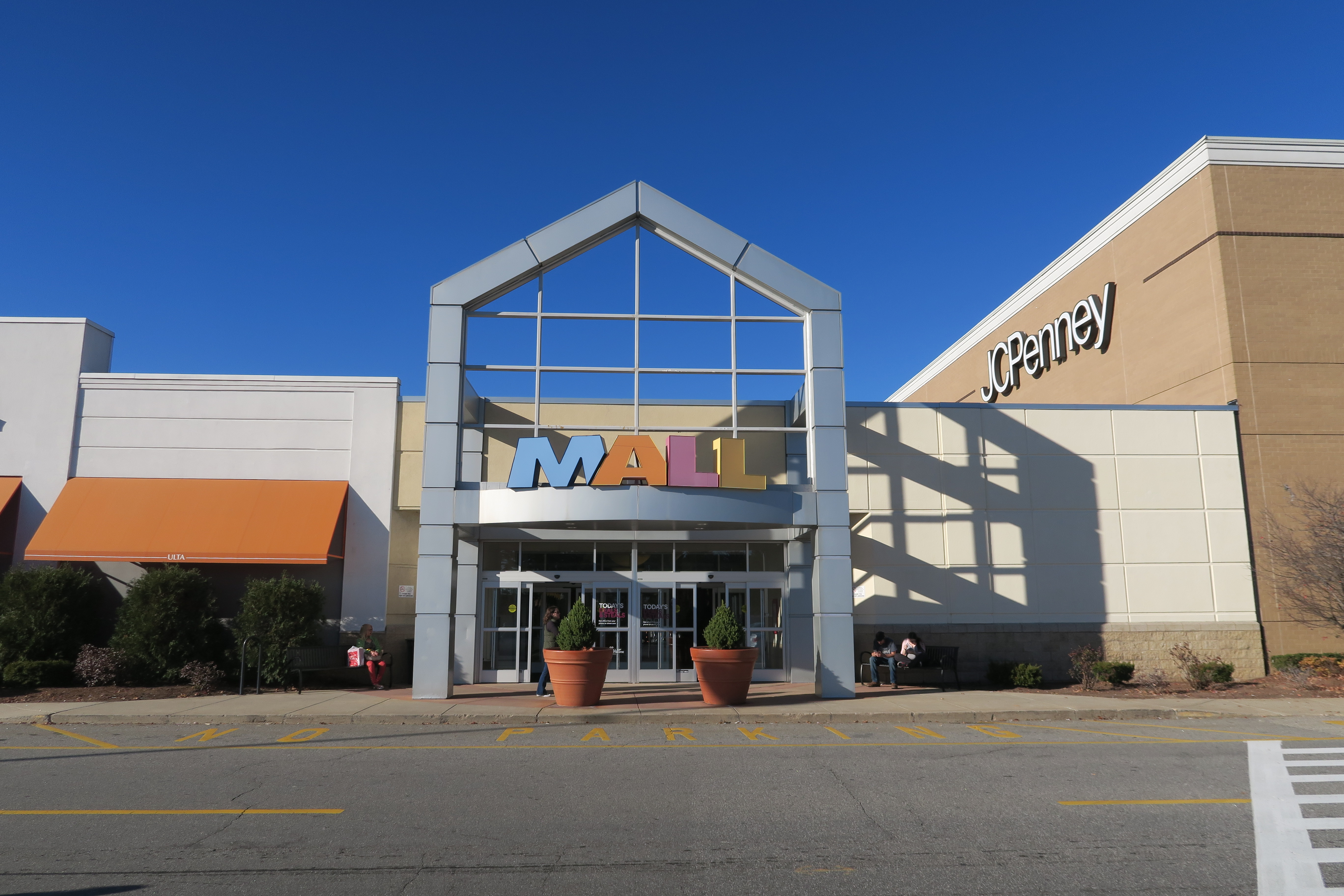 Entrance, Mall of New Hampshire, Manchester New Hampshire